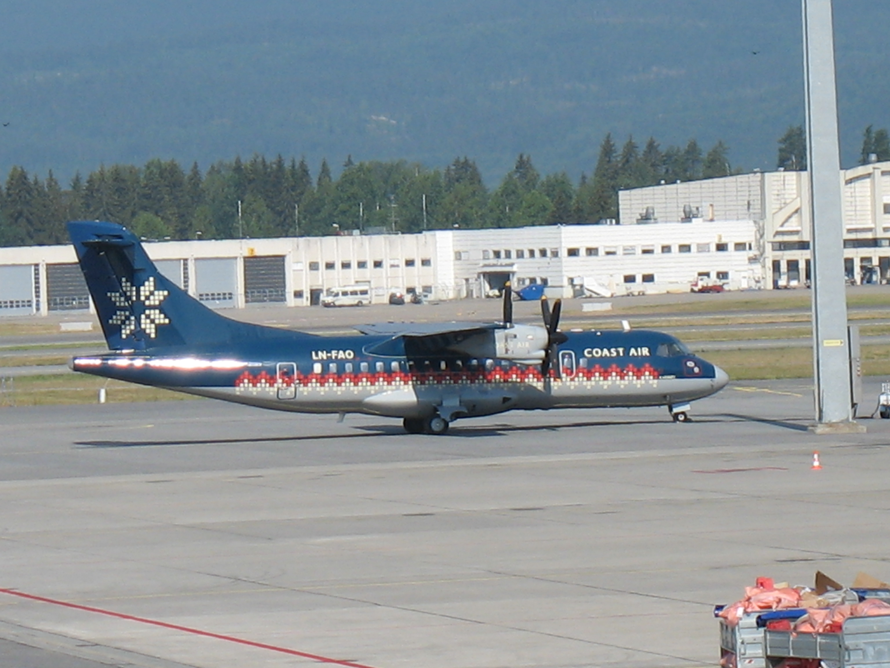 An Coast Air ATR 42 (LN-FAO) at Oslo Airport Gardermoen, Norway